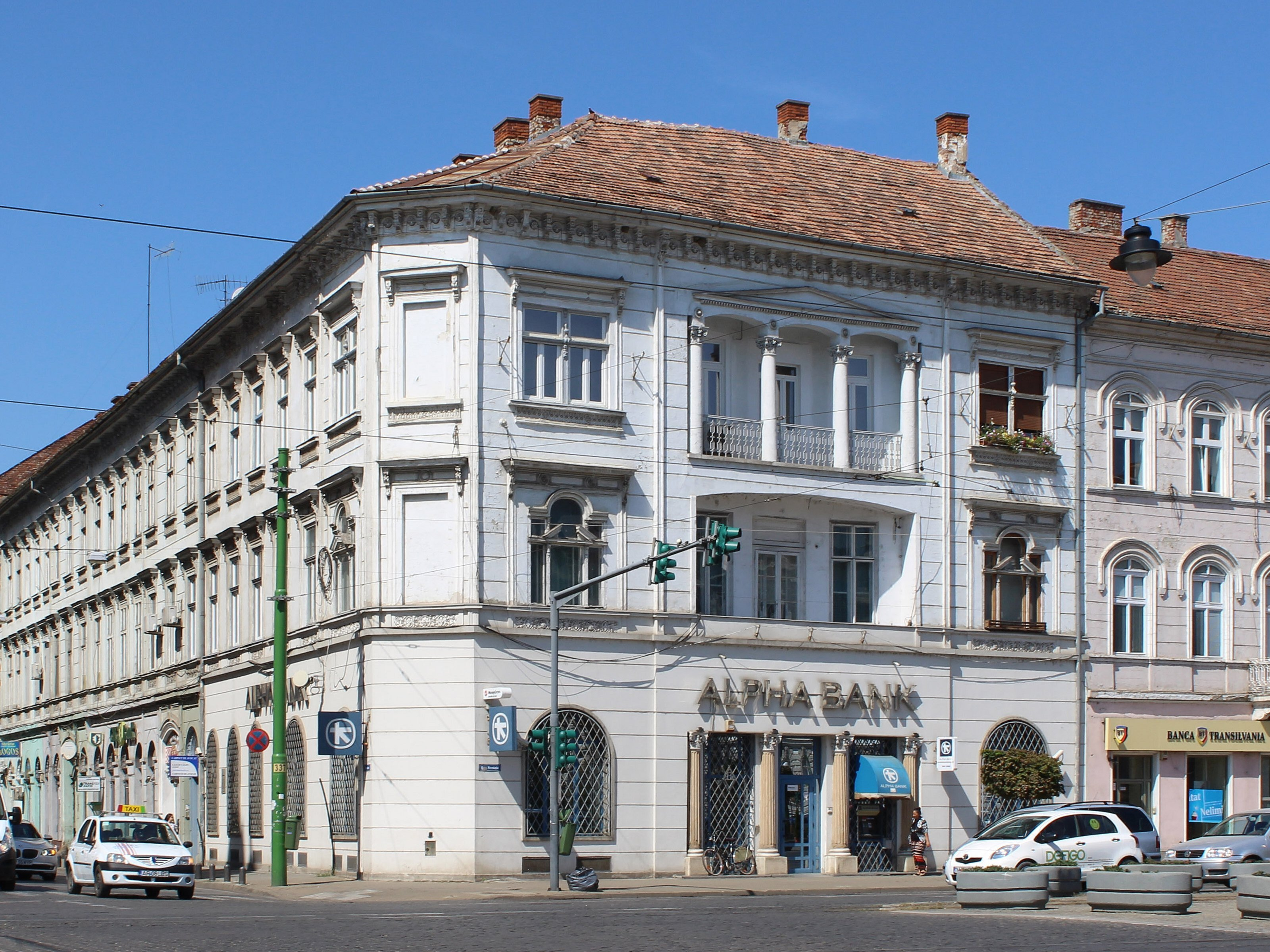 Arad, Romania, Headquarters of the former "Victoria" Bank, built between 1890–1900